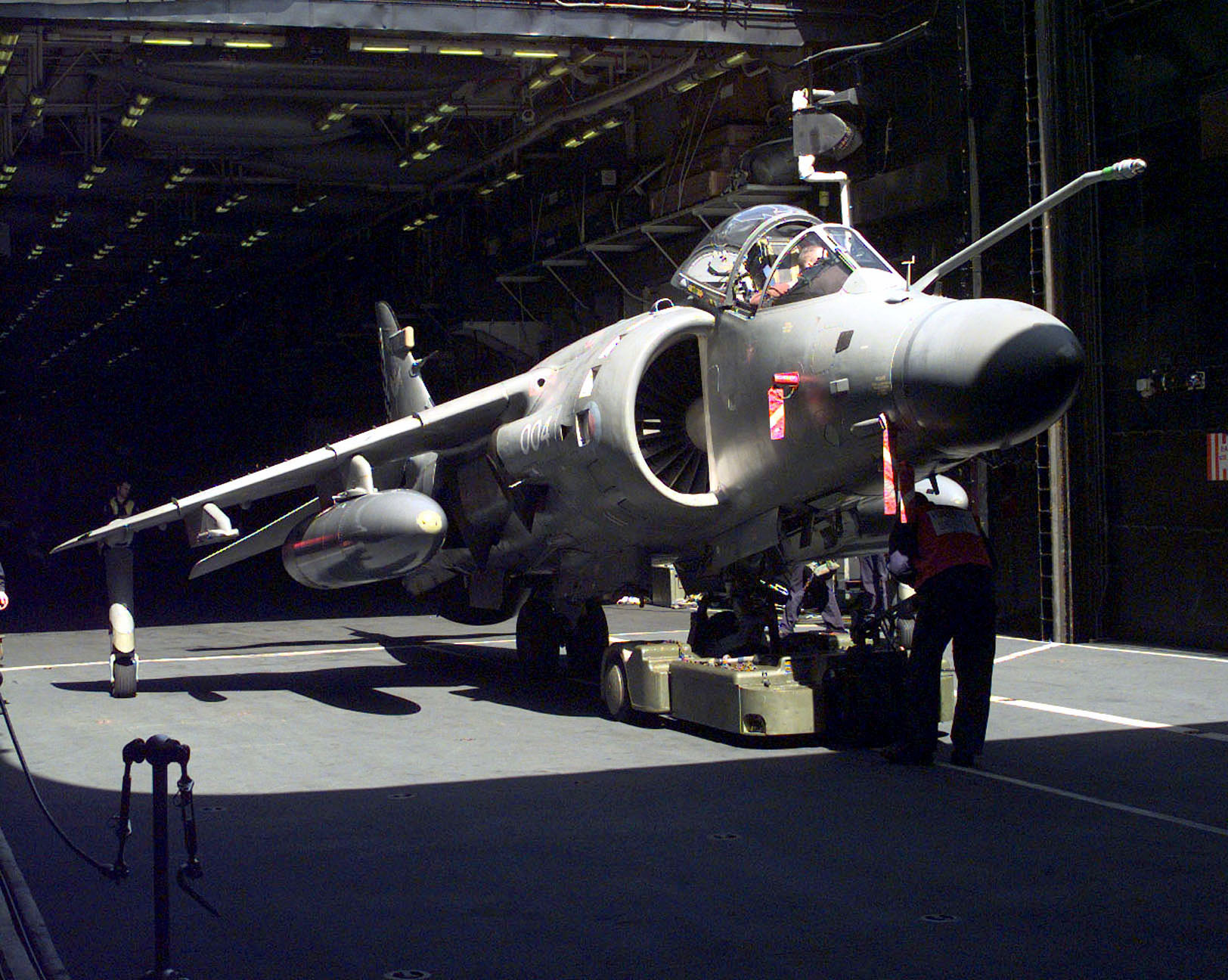 British crewmen move a Royal Navy British Aerospace Sea Harrier FA2 of 801 Naval Air Squadron, Fleet Air Arm, onto the flight deck elevator of the aircraft carrier HMS Illustrious (R06) on 12 March 1998. The British vessel was operating in the Persian Gulf.